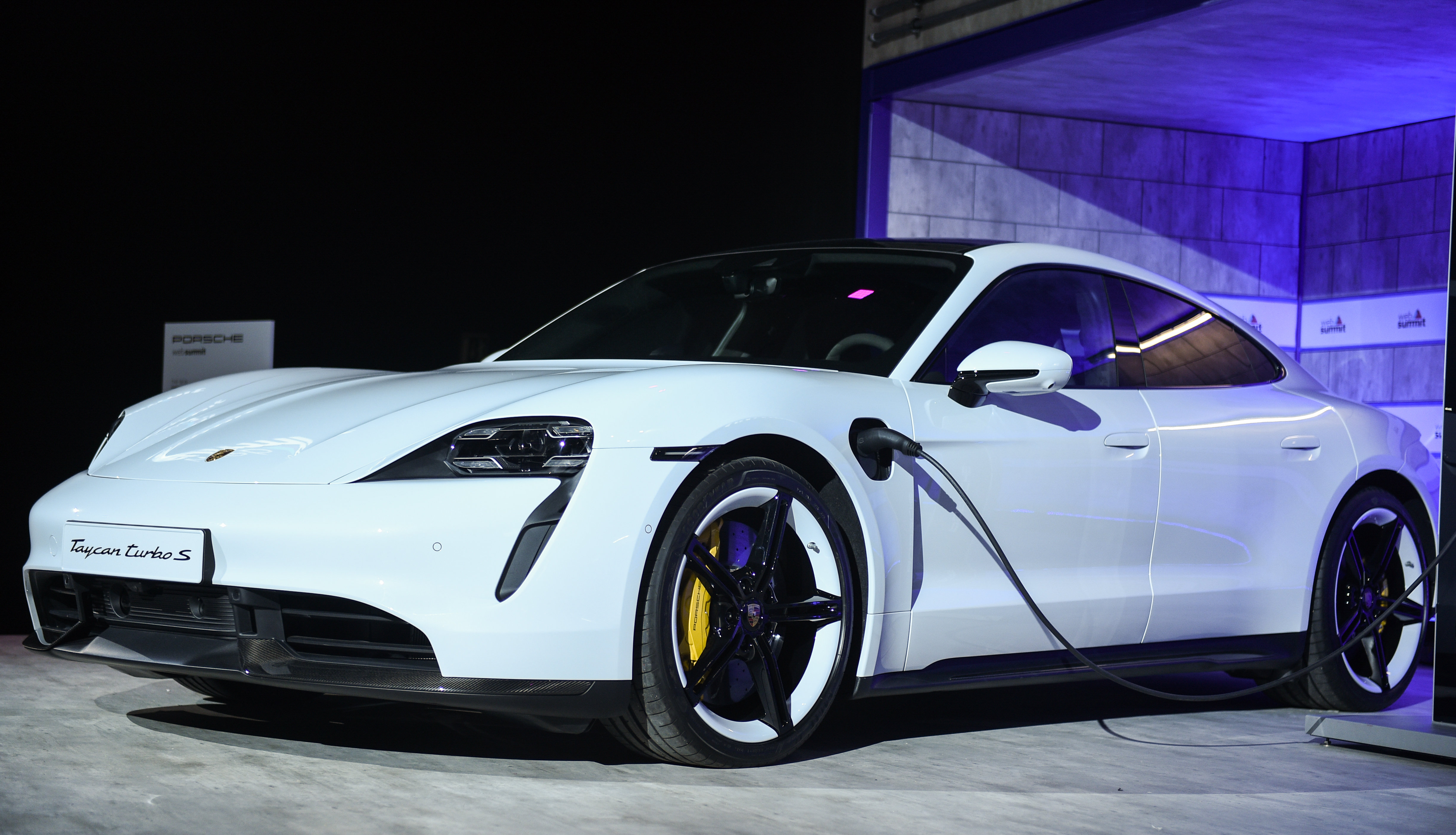 5 November 2019; The Porsche Taycan Turbo S is seen on Auto/Tech & TalkRobot Stage during the opening day of Web Summit 2019 at the Altice Arena in Lisbon, Portugal. Photo by Cody Glenn/Web Summit via Sportsfile